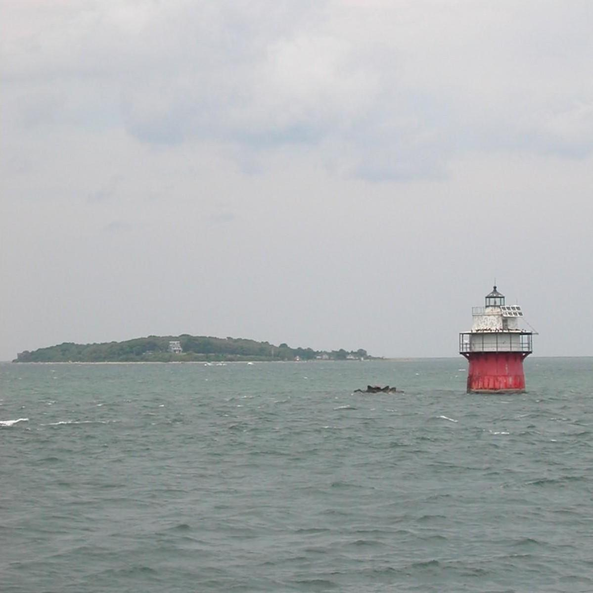 View of the Duxbury Pier Lighthouse and Clarks Island in Plymouth Harbor